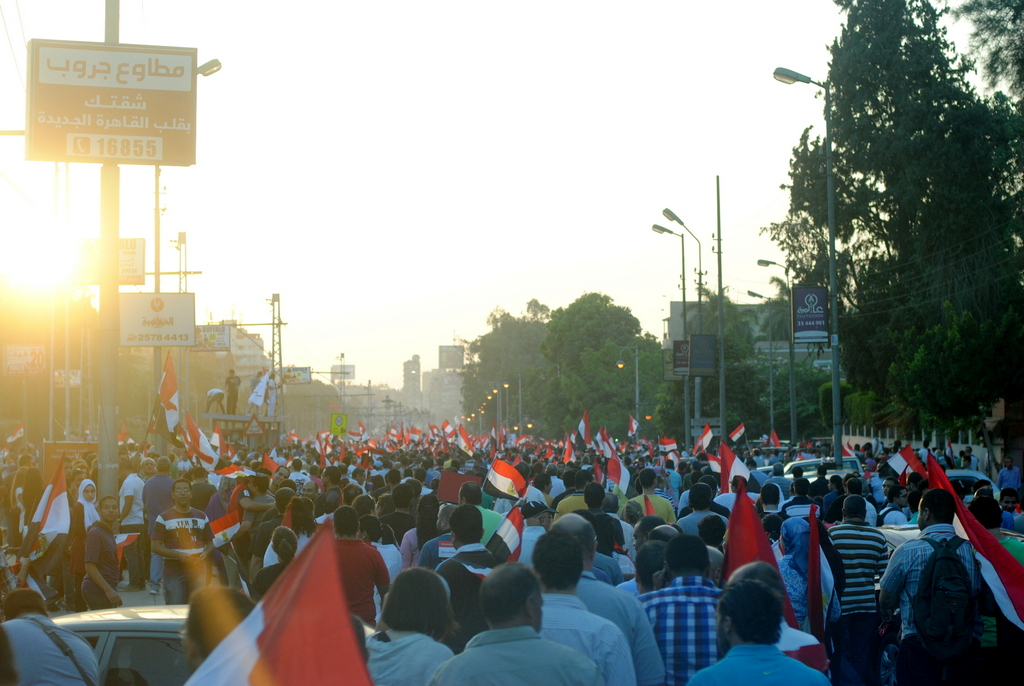 Anti-Morsi protest march in Cairo, Egypt, June 28 2013